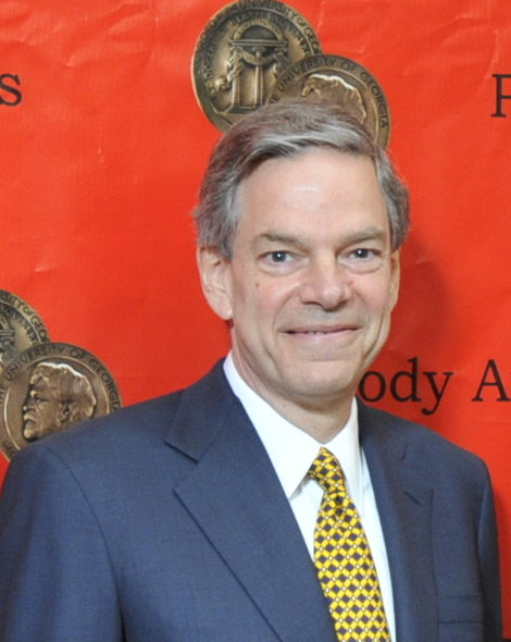 Cerissa Tanner, Benita Sills, Adam Yamaguchi, Joel Hyatt, Mariana van Zeller and Darren Foste 69th Annual Peabody Awards Luncheon Waldorf=Astoria Hotel New York, NY USA May 17, 2010